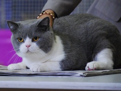 blue and white bicolour male british shorthair at a cat show